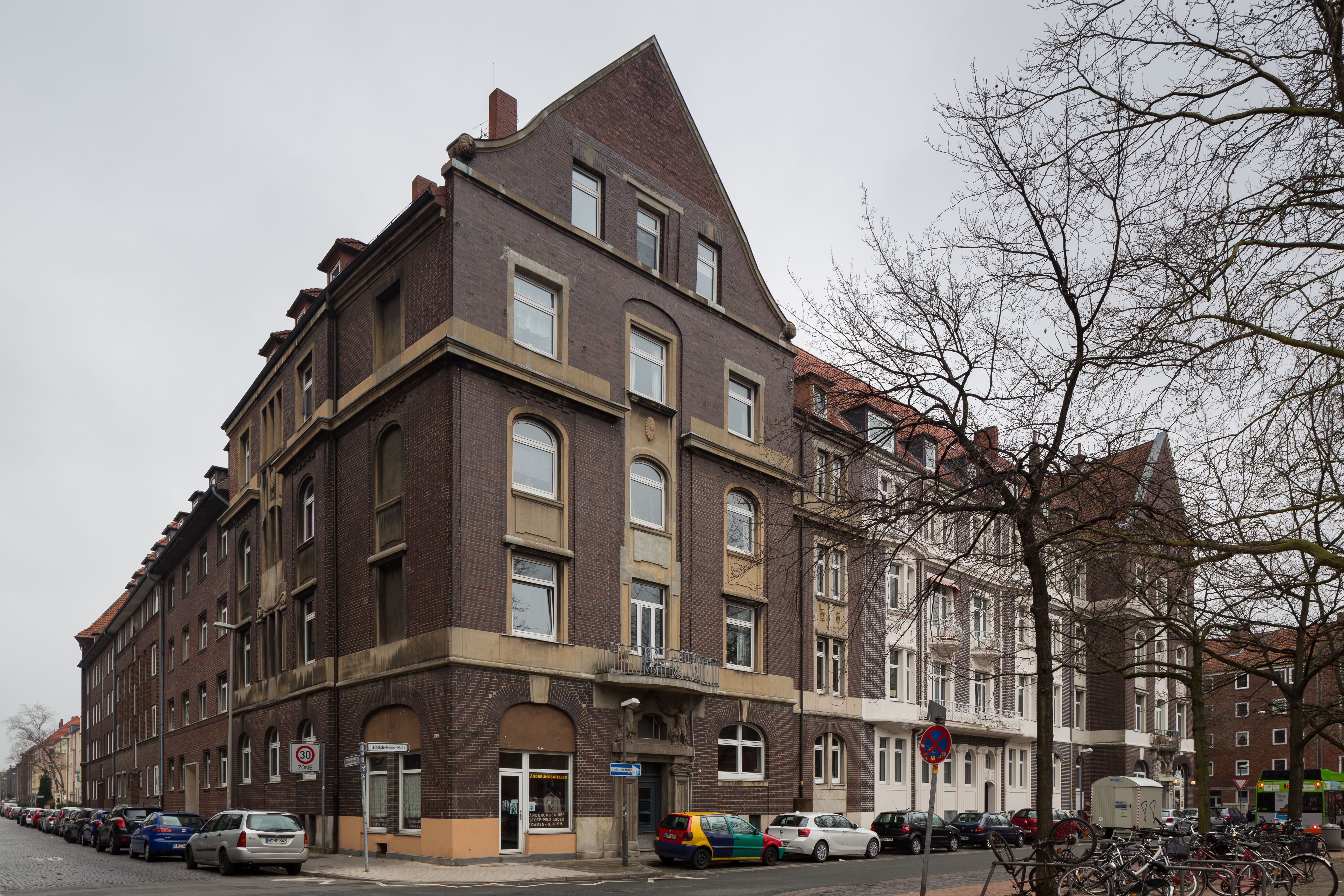 Apartment house located at Heinrich-Heine-Platz square in Suedstadt district of Hannover, Germany.